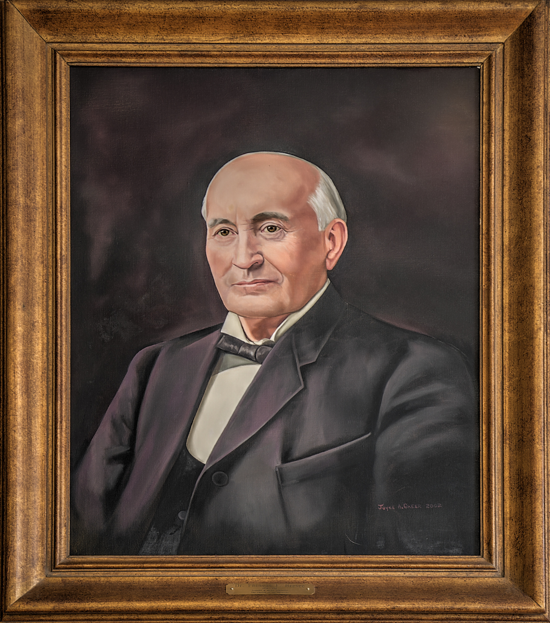 Dr. Phineas F. Bresee (1838 - 1915); Founder and Organizer of the Church of the Nazarene